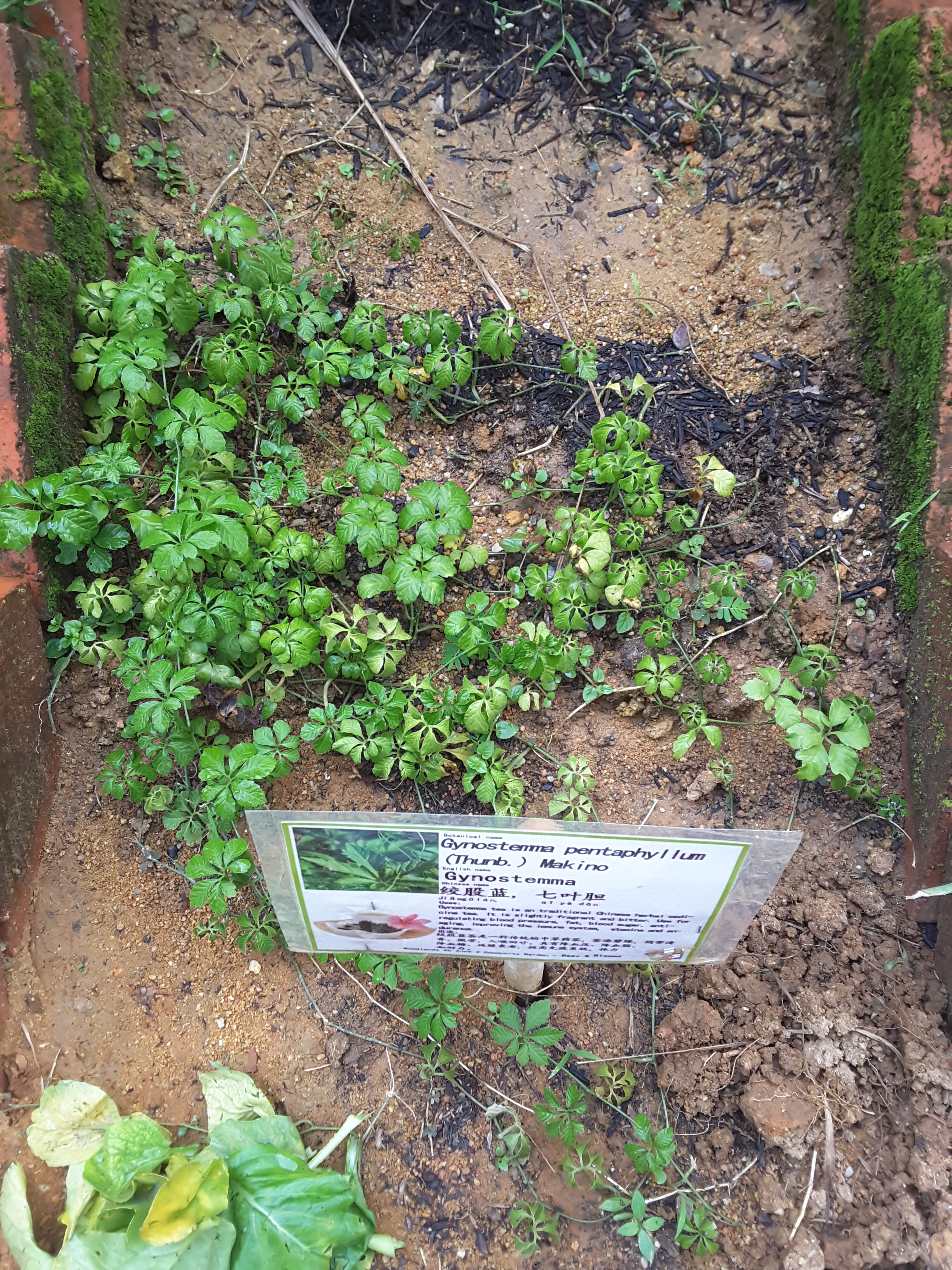 Gynostemma cultivation in Singapore